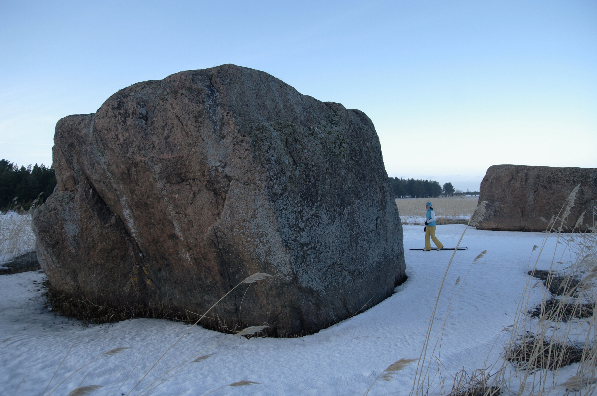 Vahase bouldersLatviešu: Vahazes dižakmeņi